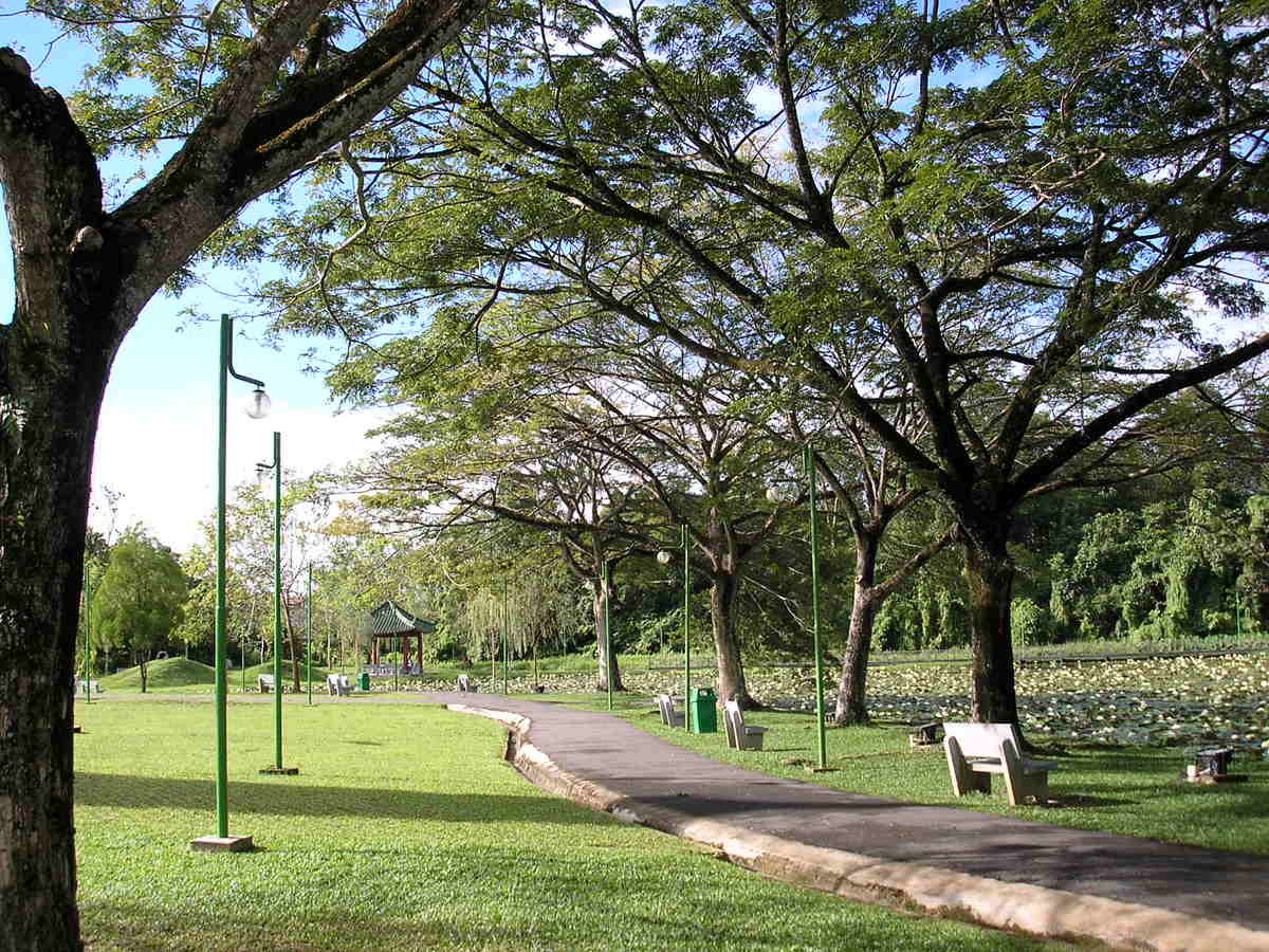 Ku Tian Garden, Sibu, Sarawak, Malaysia.